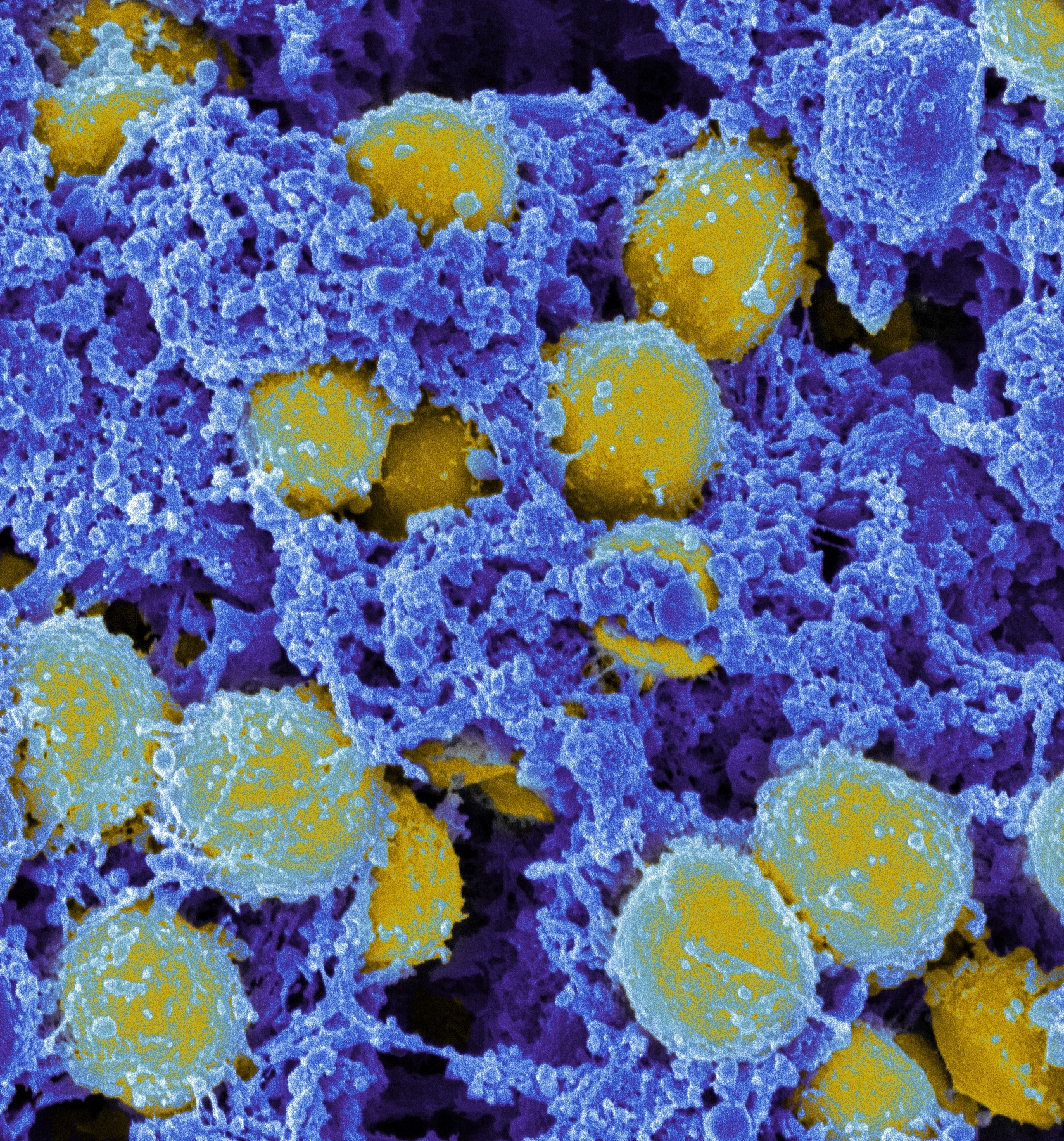 Scanning electromicrograph of Staphylococcus aureus bacteria. Credit: NIAID